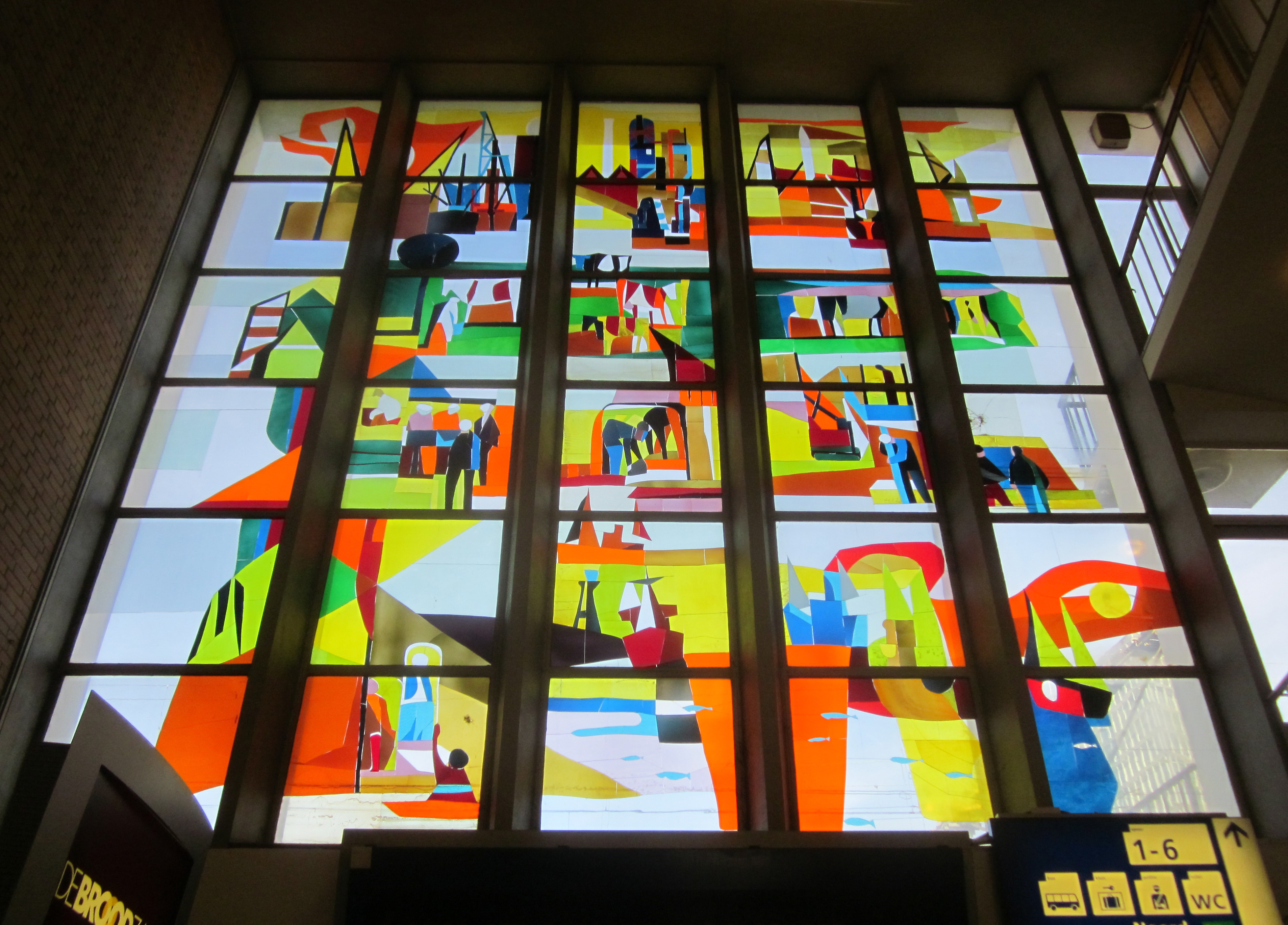 Glass window art made by Lex Horn in 1955 at the station Eindhoven.